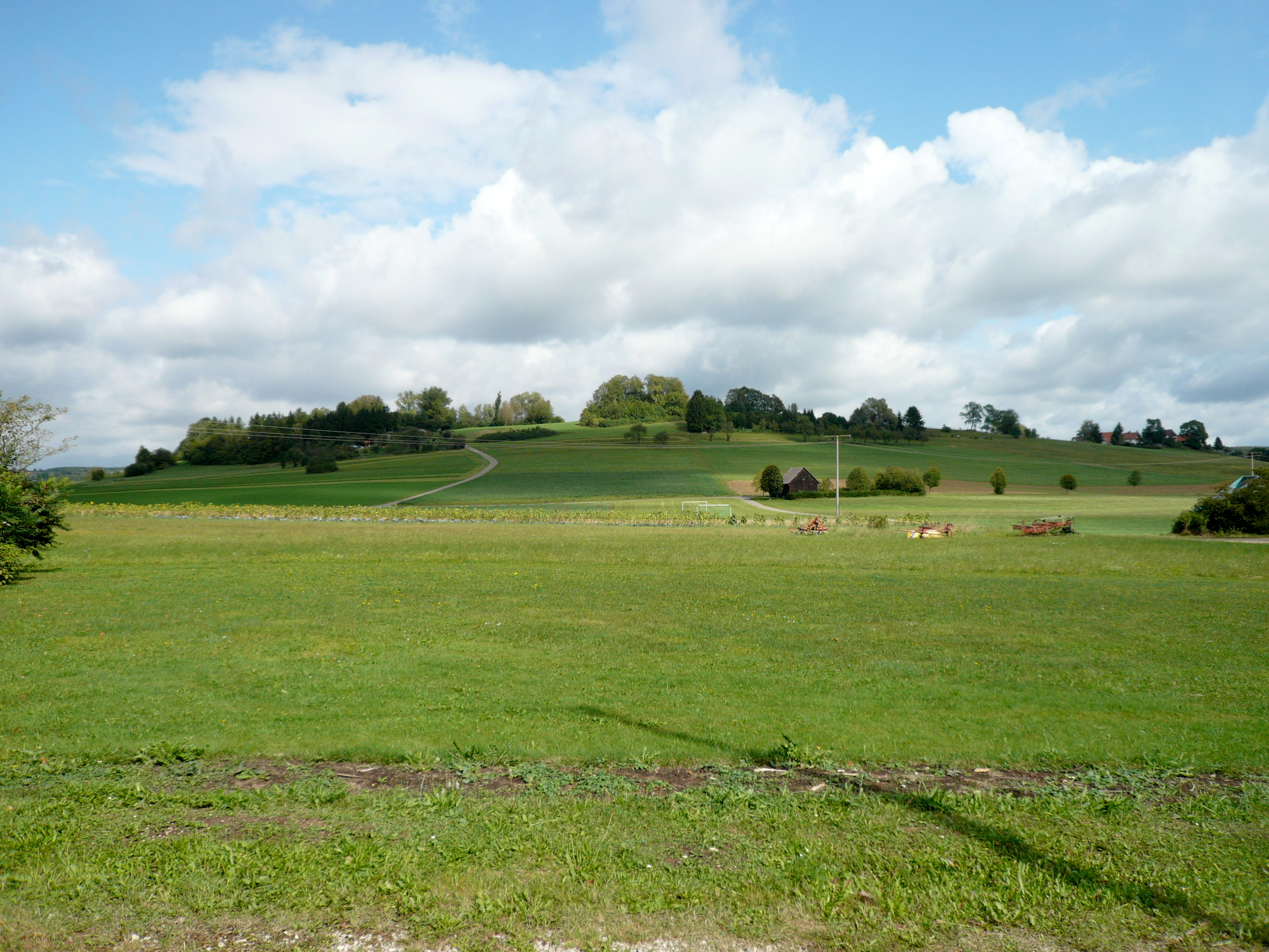 Central hill of Steinheimer Becken